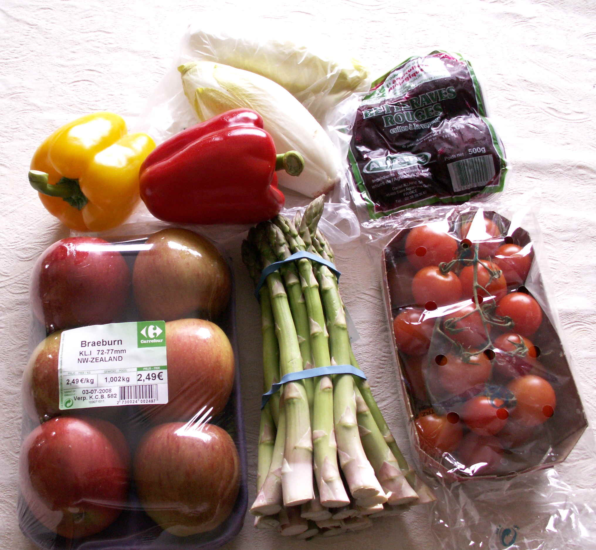 A picture of a collection of healthy (low-calorie) snacks. These include (from left to right): paprika, endives, beetroots, apples, asperges, and cherry tomatoes